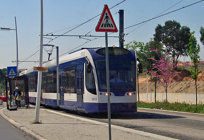 Metro Sul do Tejo, testing the vehicle in Laranjeiro (Almada, Portugal). Siemens Combino Plus tram (#C013), built 2007, Metro Transportes do Sul (MTS) operator.